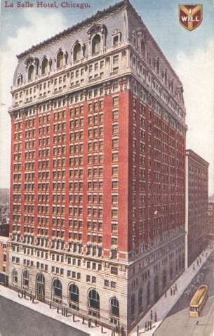 Historical La Salle Hotel in Chicago. Part of a promotional card set by the hotel which according to [1] is dated to c.1915.(being part of the set to which the Donatello Fountain card belongs to on that page).